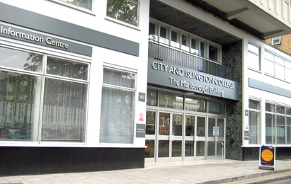 Centre for Health, Social and Child Care